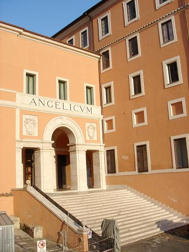 Facade of the main entrance of the Pontifical University of St. Thomas Aquinas (Angelicum)